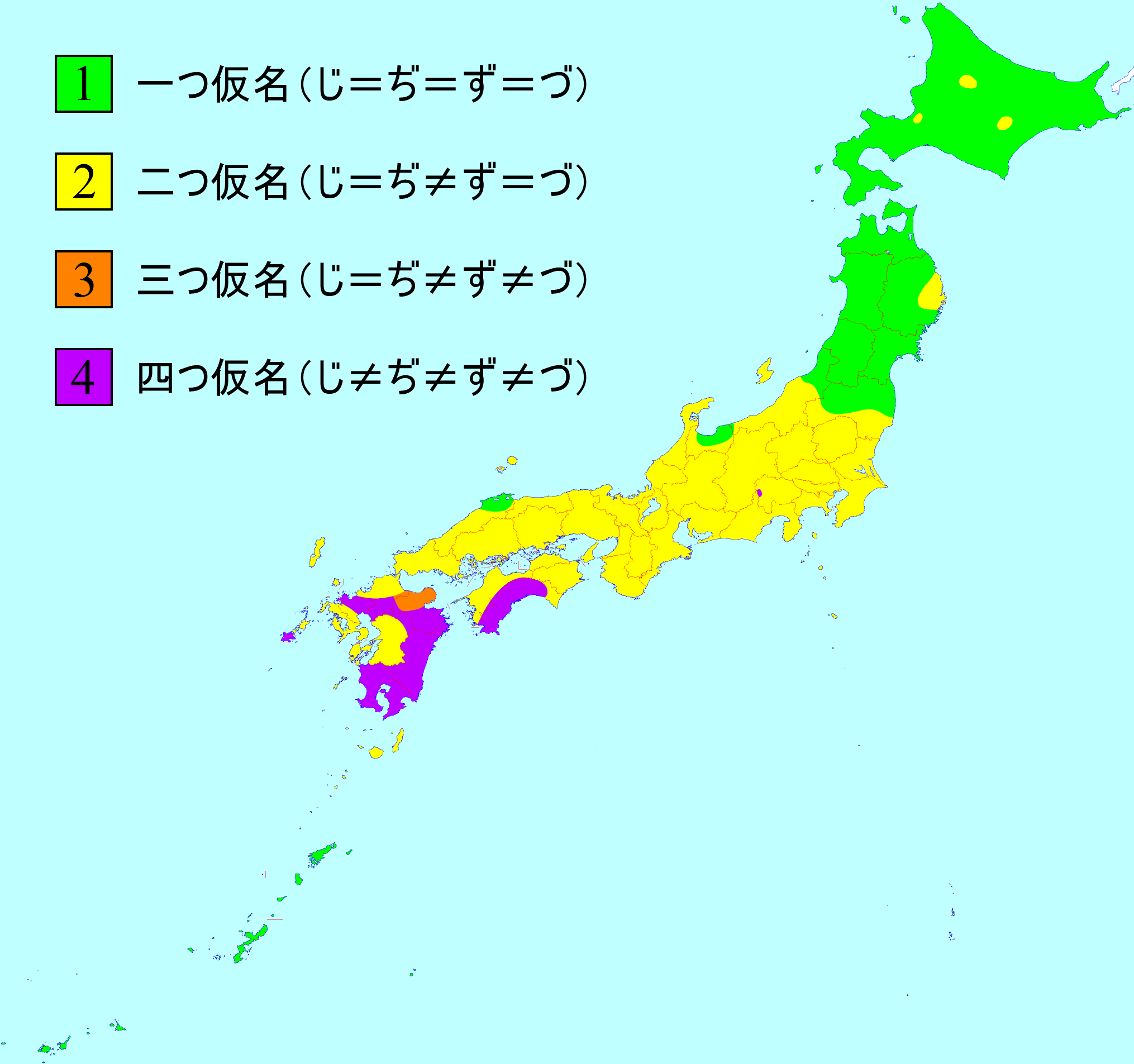 Japanese yotsugana distribution map